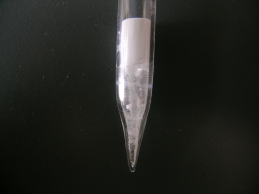 CsCdBr3 single crystal grown by Bridgeman technique, Istanbul Technical University.